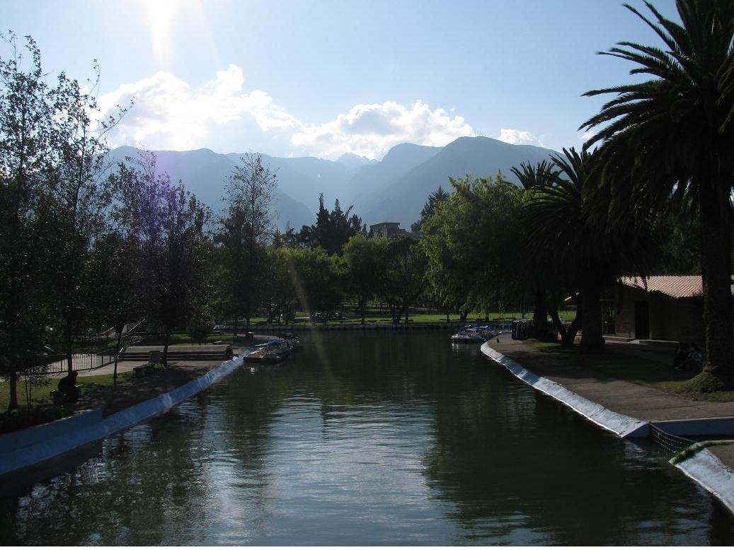 La Carolina Park, lagoon area